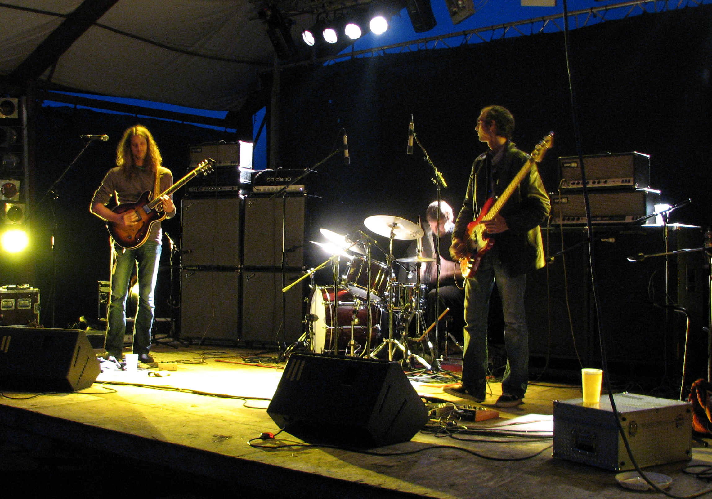 A group photo of German stoner rock band Colour Haze. L - R: Stefan Koglek, Manfred Merwald, Philipp Rasthofer. Taken by